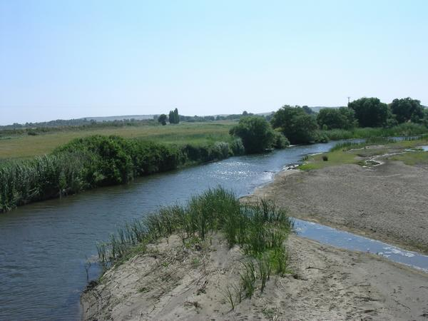 The Scamander, northwest of Troy